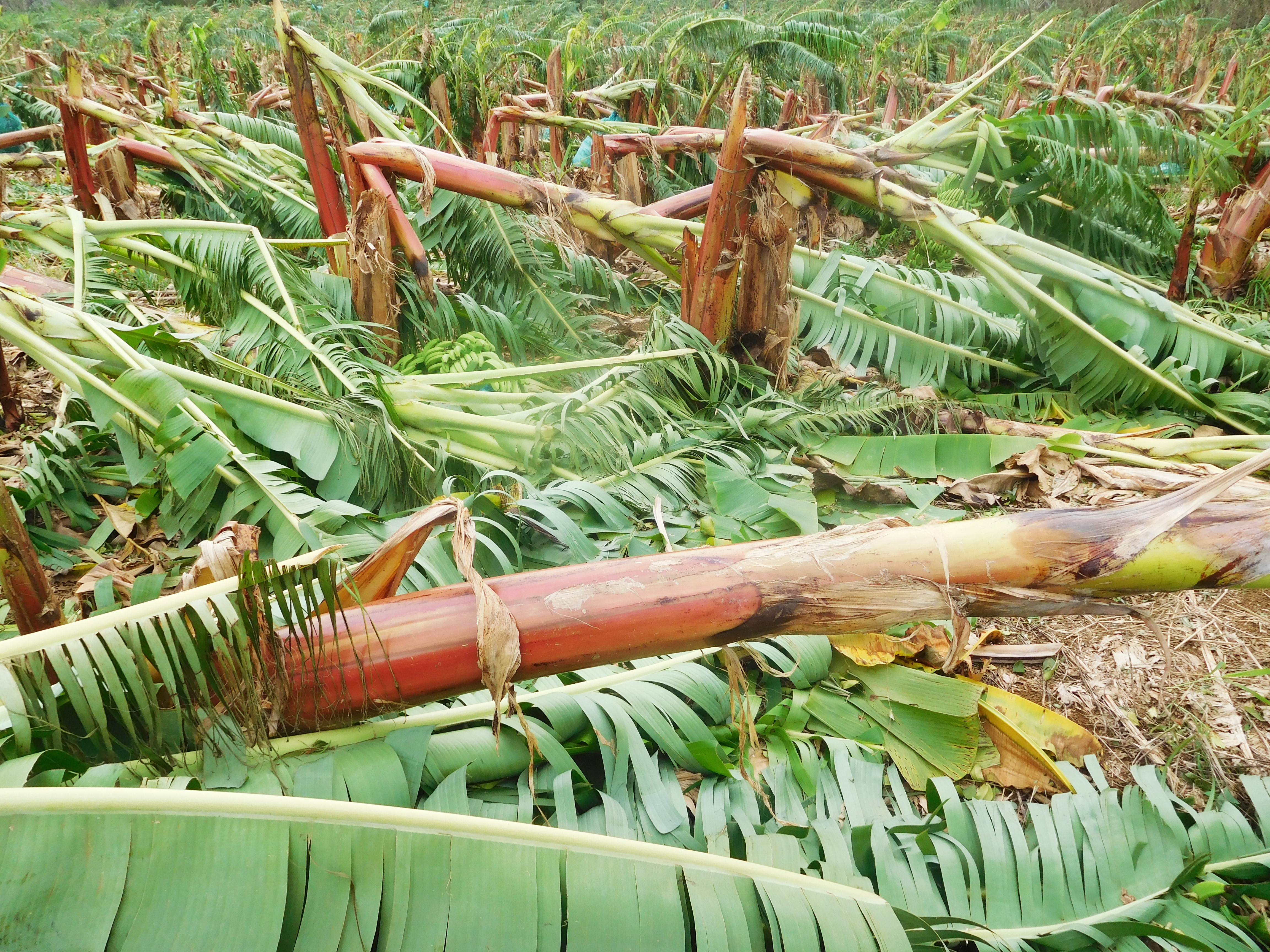 Effects of hurricane Maria